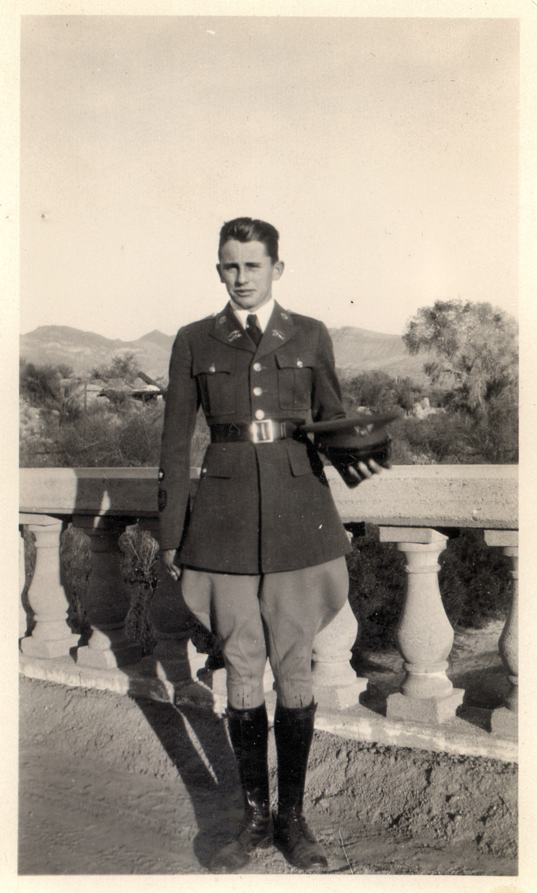 Portrait of man in military school wearing uniform with jodhpurs